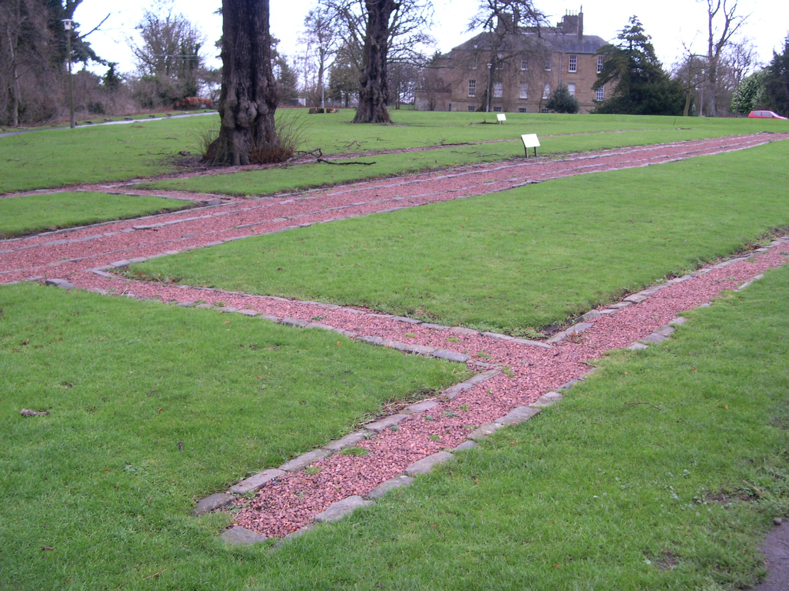 A picture of the site of the Roman Fort at Cramond, Edinburgh, Scotland.